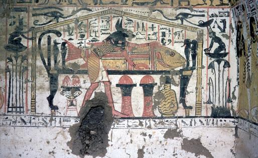 Khabekhnet mummified as abdw-fish, painting of his tomb TT2